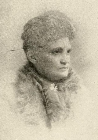 Photographic portrait of American writer Rebecca Ruter Springer (1832–1904). From American Women: Fifteen Hundred Biographies with Over 1,400 Portraits, Frances E. Willard and Mary A. Livermore, editors. Mast, Crowell & Kirkpatrick, 1897 (revised edition from 1893), vol. 2, p. 675